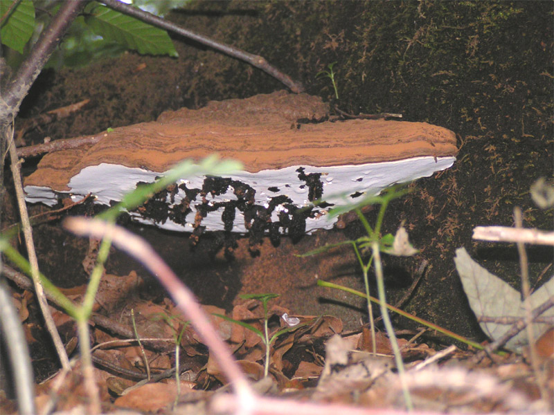 Ganoderma applanatum - Ganodermataceae - Polyporales Black objects are larval galls of Agathomyia wankowiczii (Platypezidae)